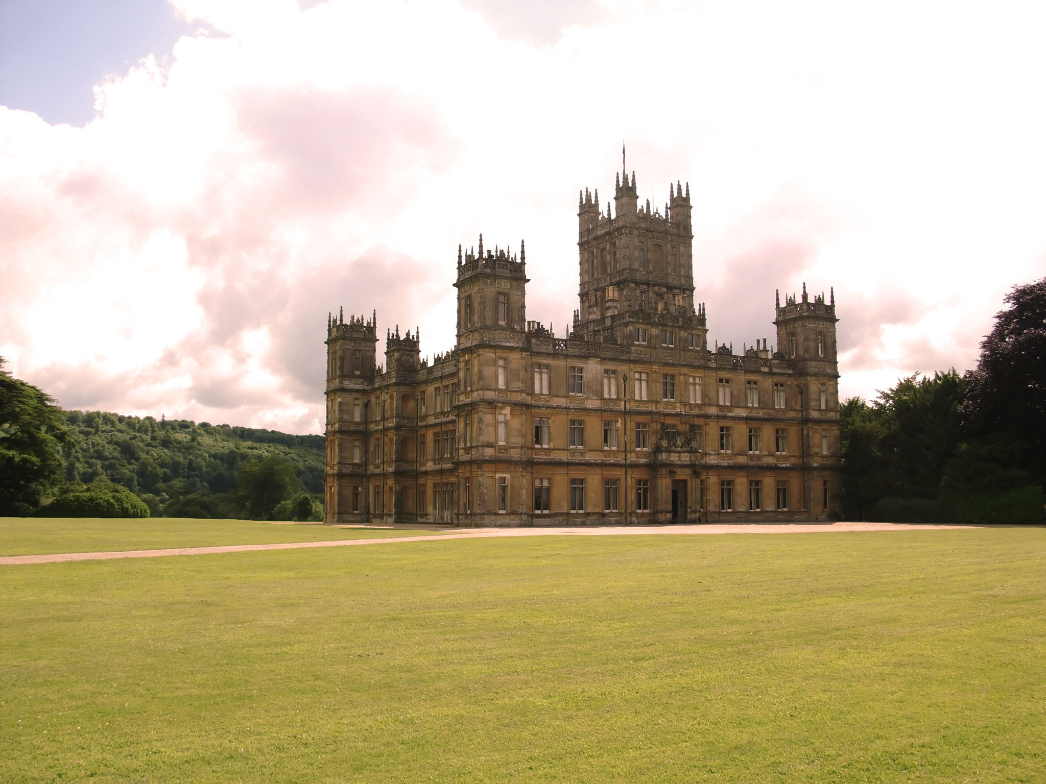 Highclere Castle